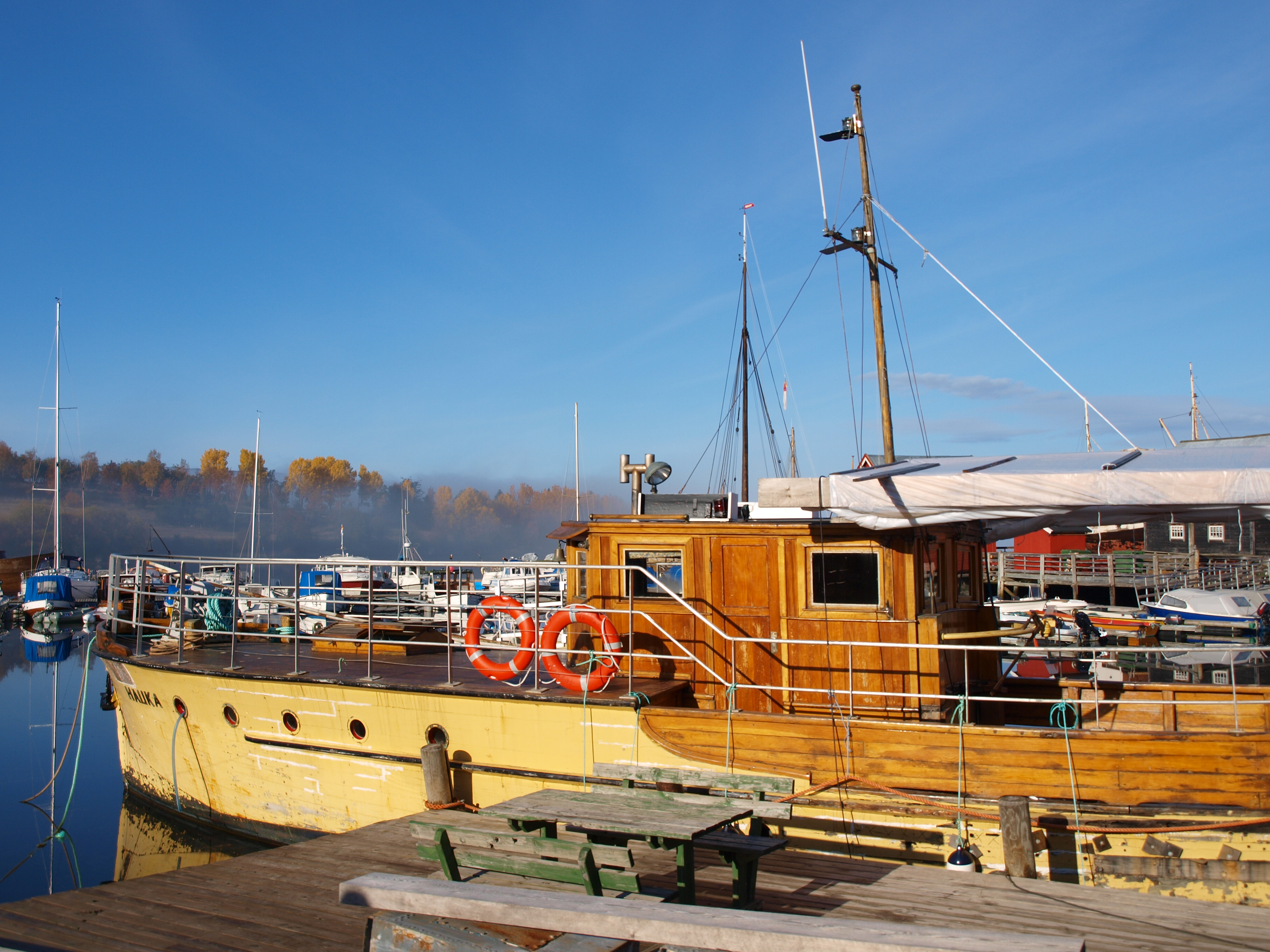 MB Hauka